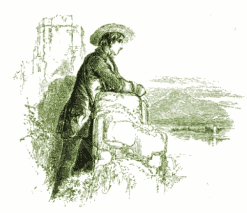 Illustration of Paul Flemming, the main character of the novel Hyperion by American writer Henry Wadsworth Longfellow. Engraving on wood. From a London edition, 1853.